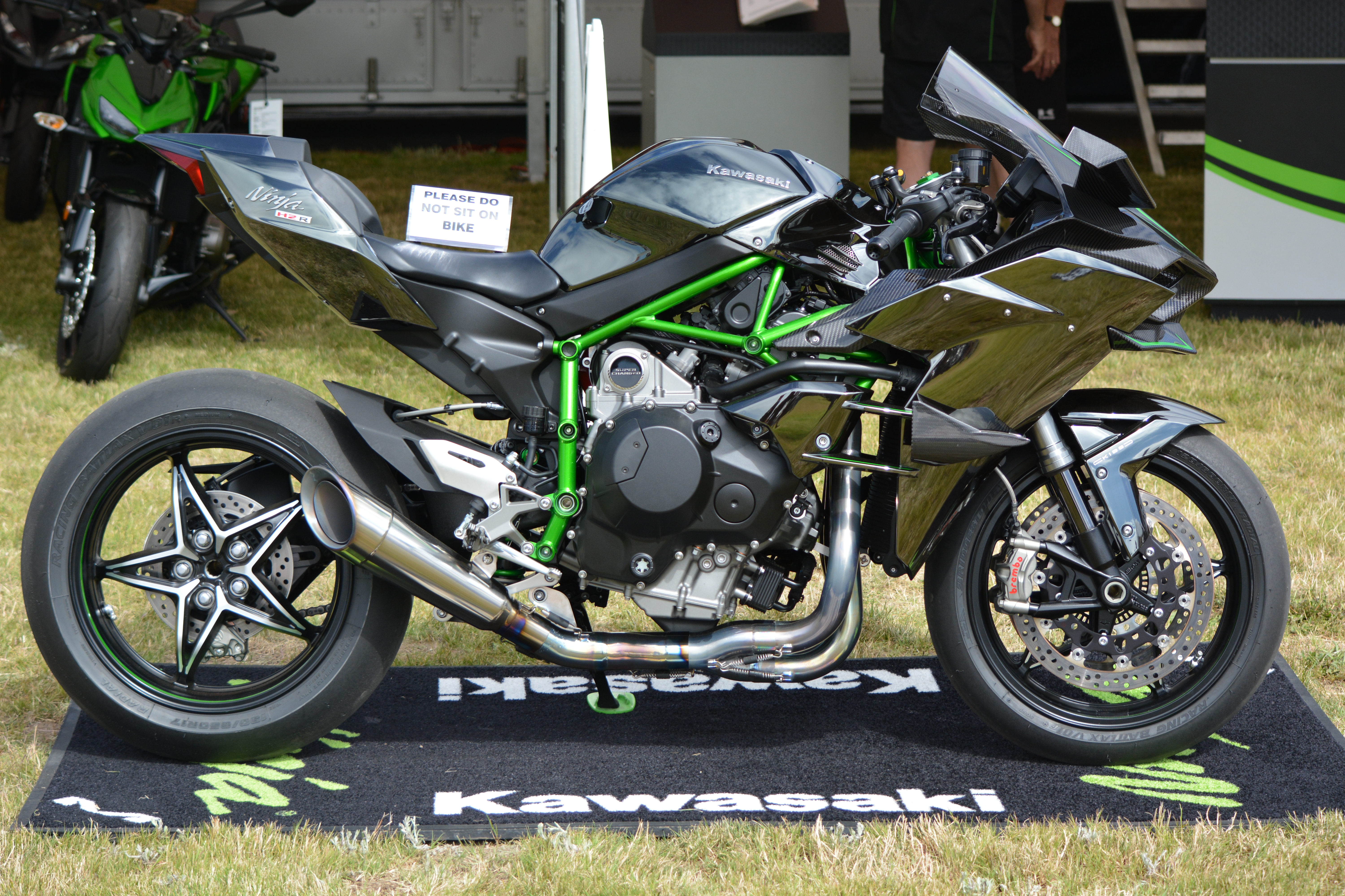 SBK FIM Superbike World Championship 2015 SBK FIM Superbike World Championship 2015